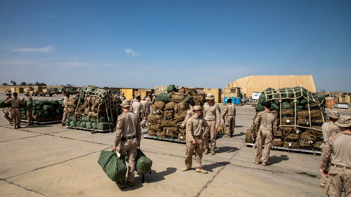 Marine Corps withdrawal from Al-Taqaddum, Iraq (March 24, 2020)